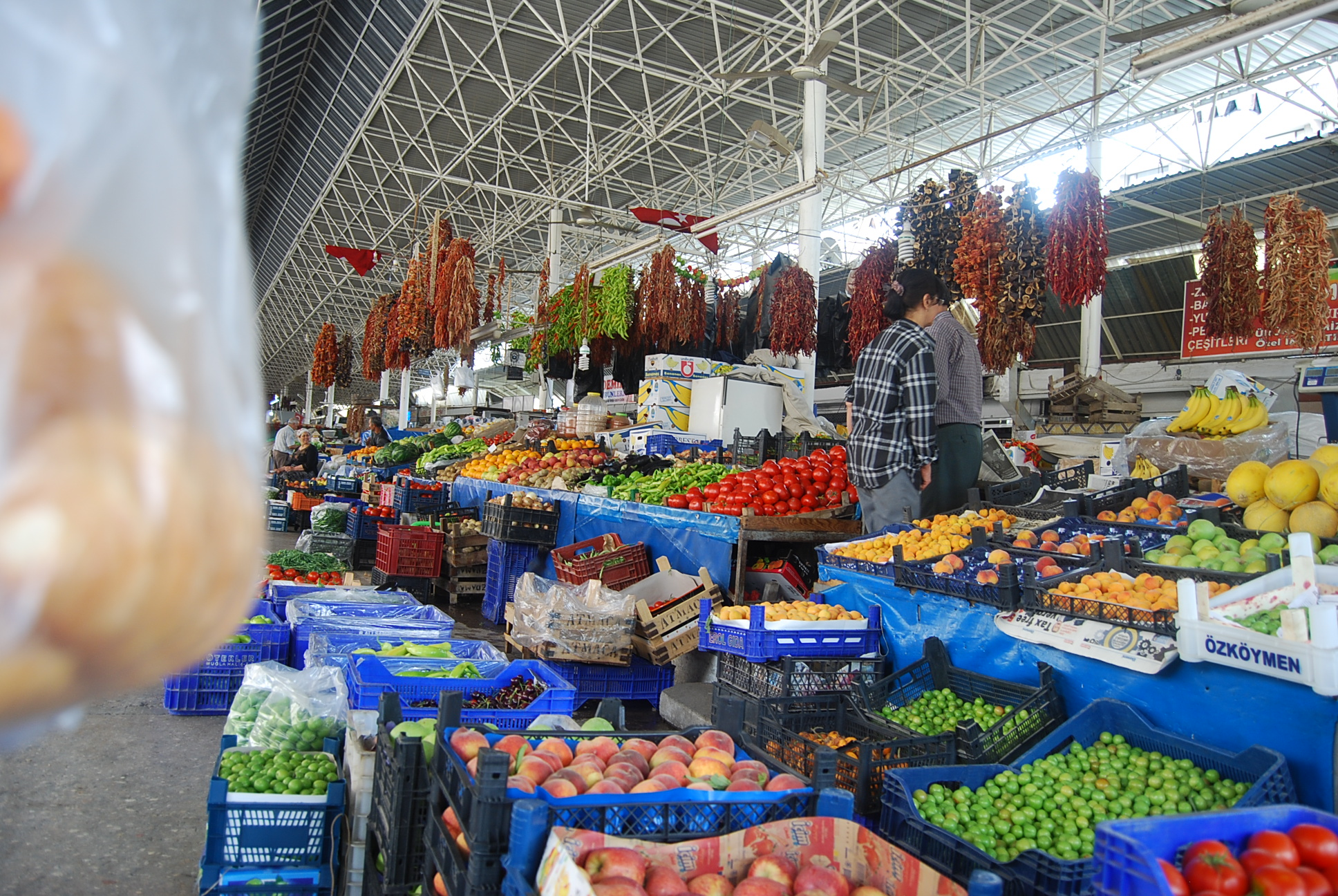 Big Market Mugla Turkey